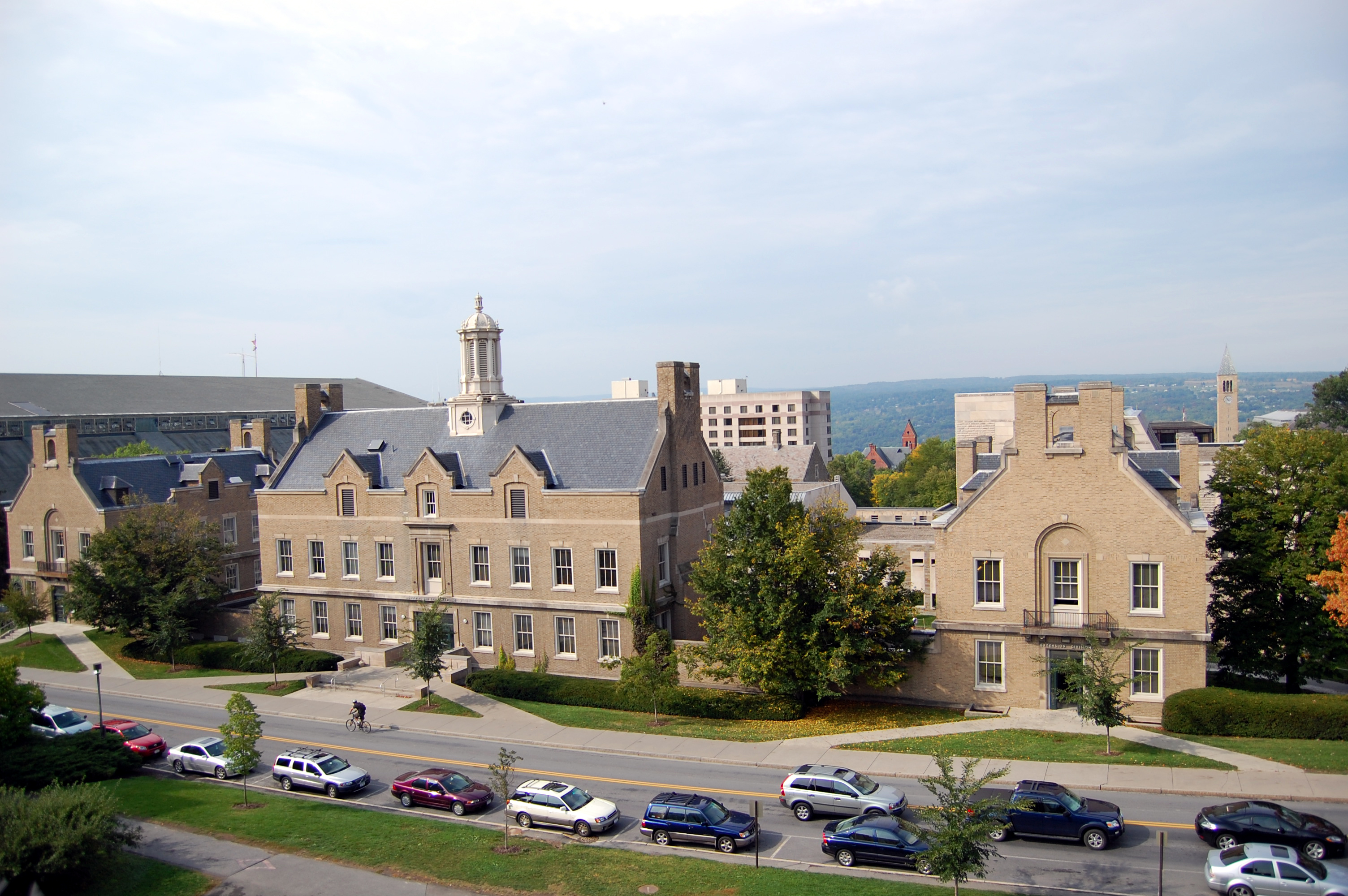 Overlooking ILR Quad at Cornell University